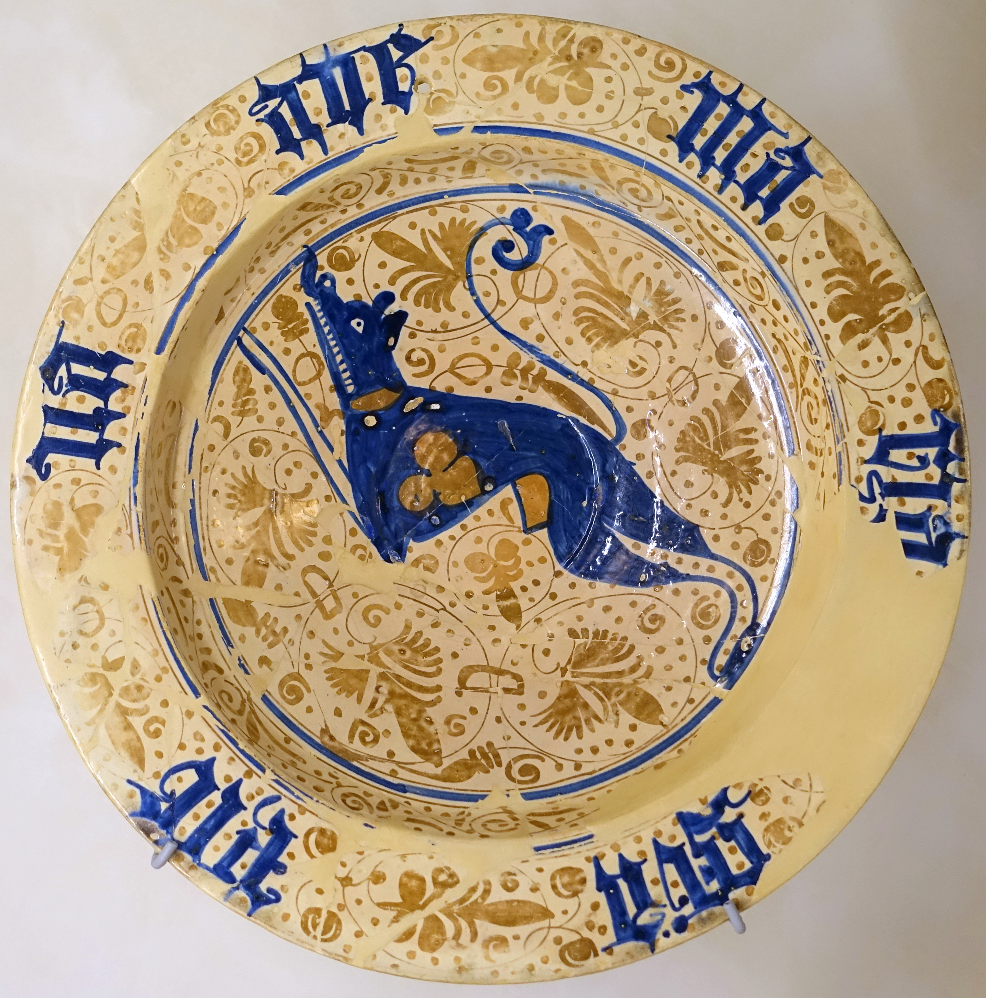 Exhibit in the Cinquantenaire Museum - Brussels, Belgium.